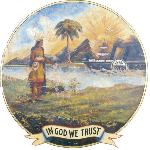 The 1868 Seal of Florida. Image source